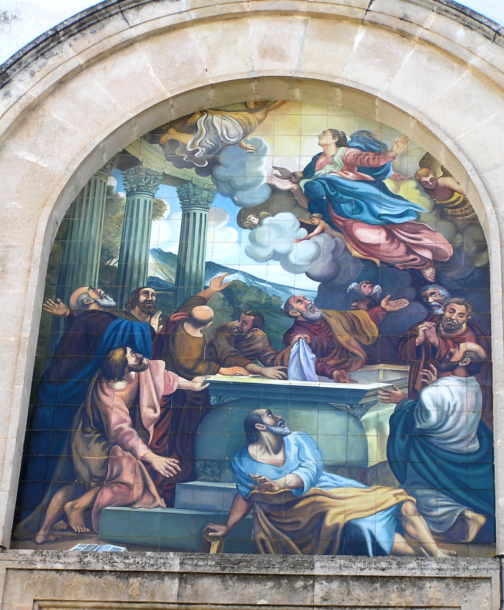 Fresco sobre la puerta principal de la Parroquia